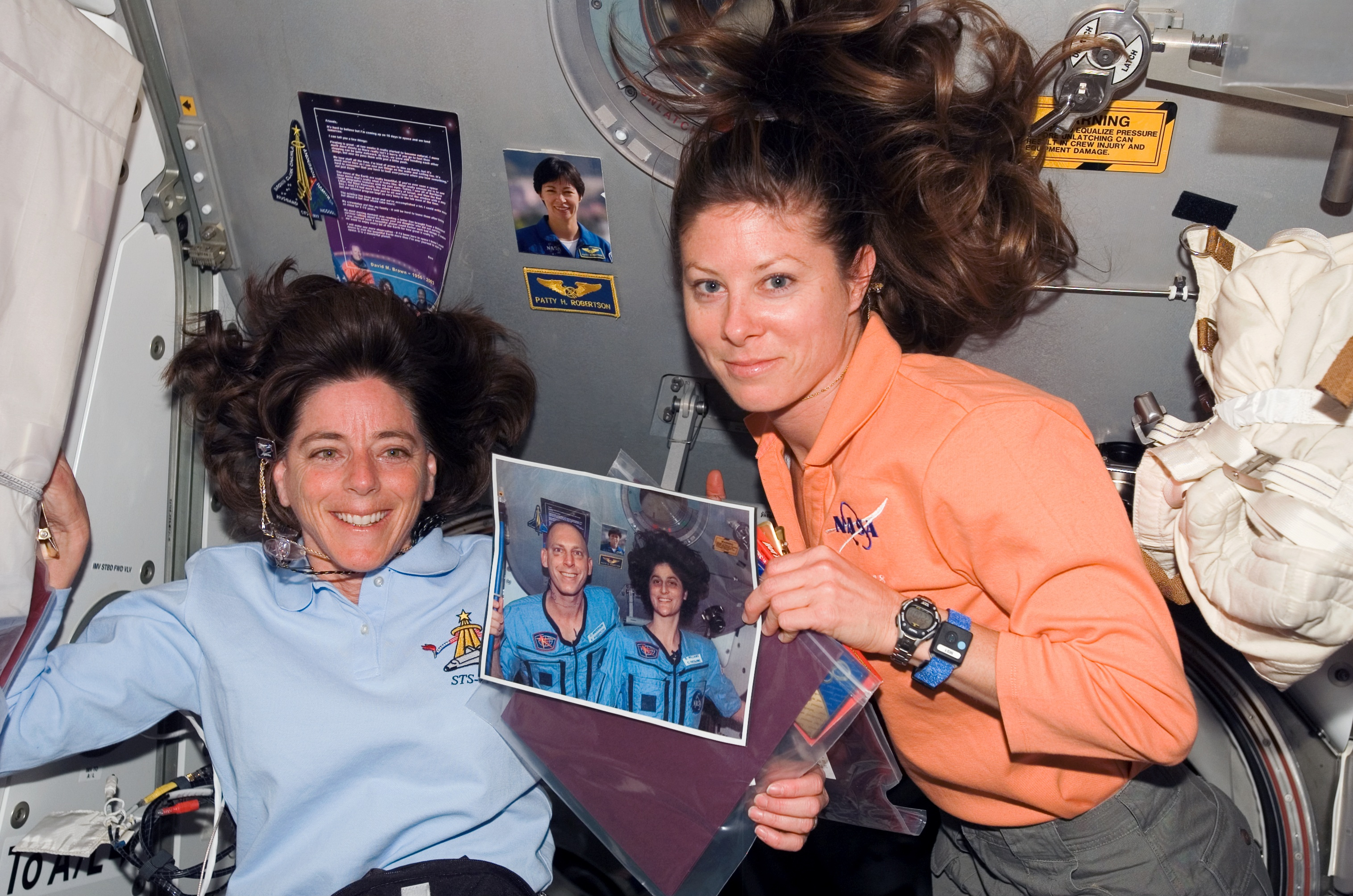 Two crewmembers of STS-118 onboard ISS with photo tributes, Teacher in Space Barbara Morgan (who had been the backup to Christa McAuliffe for STS-51L) and Tracy Caldwell. The photo they are holding is of Clayton Anderson and Sunita Williams of ISS Expedition 15. Anderson, their classmate from Astronaut Group 17, had been slated to launch to ISS with their shuttle mission, STS-118, but got moved up to STS-117. Taped to the wall behind them is a tribute to Patty Hilliard Robertson, another Group 17 classmate, who tragically died from a plane crash which she was piloting. Next to her photo and nametag (Patty H. Robertson) is a tribute to STS-107 with a photo of the crew.NASA photo ID: S118-E-09265 (s118e09265)